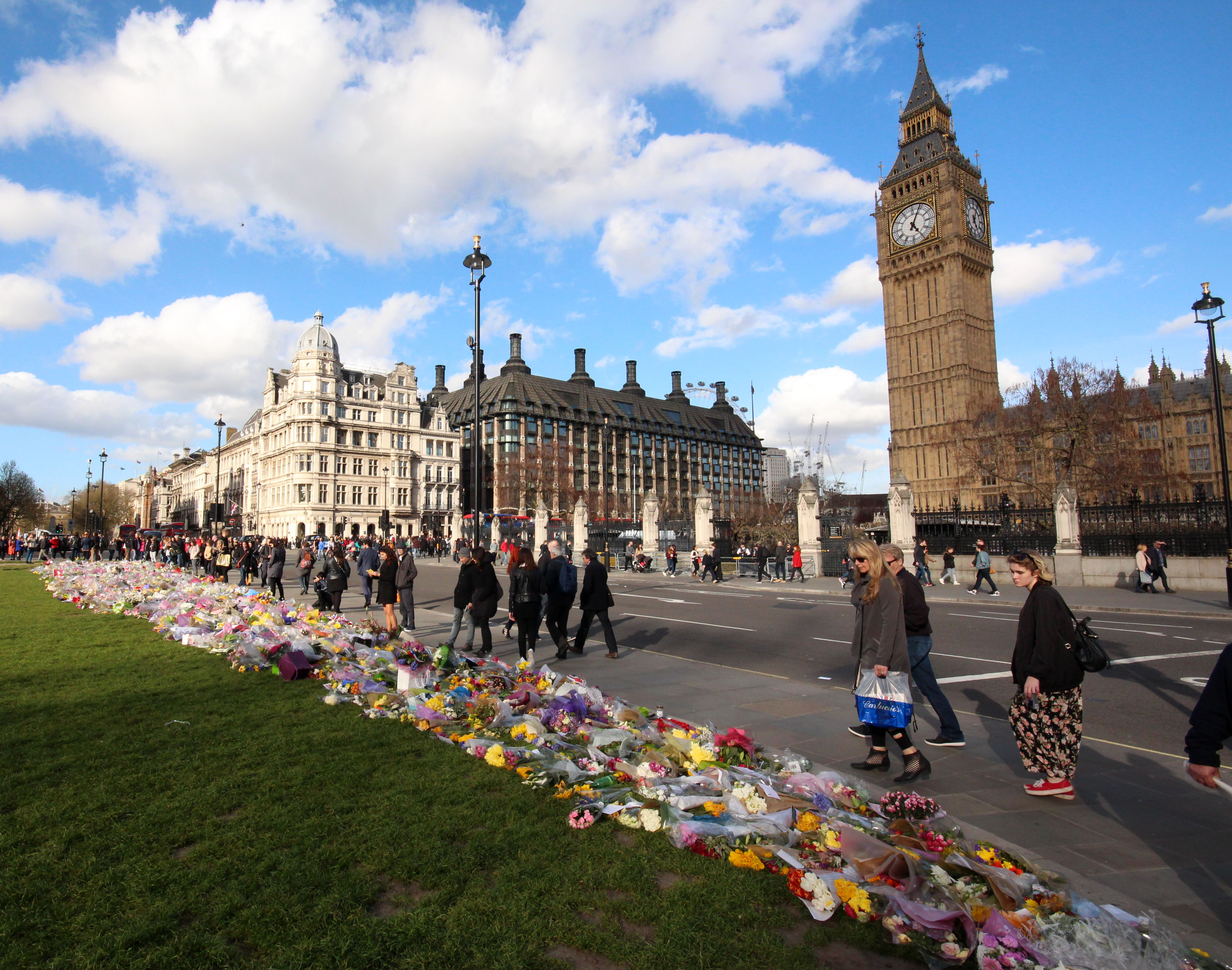 Floral tributes at Parliament Square following the 22 March 2017 terrorist attack